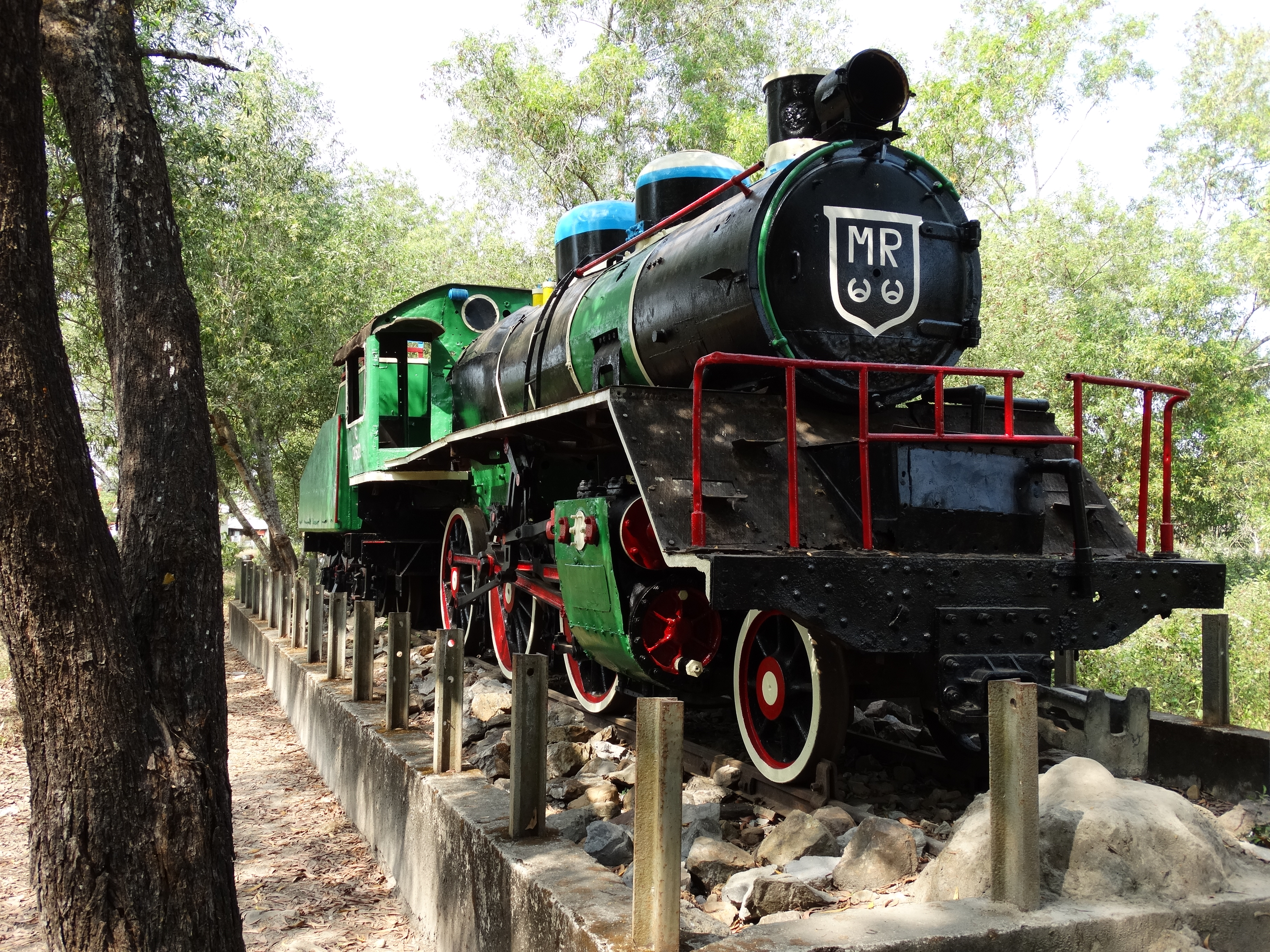 Locomotive from Era of Burma-Siam 'Death Railway' - Thanbyuzayat - Near Mawlamyine (Moulmein) - Myanmar (Burma).